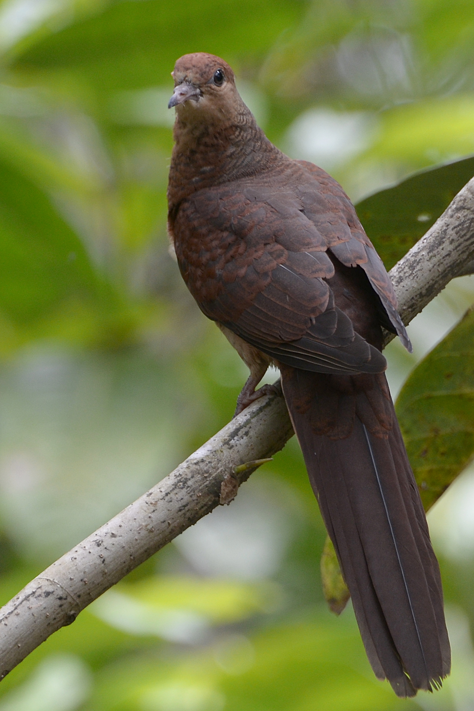 Slender-billed cuckoo-dove (Macropygia amboinensis albicapilla) at Mount Mahawu Protected Forest, North SulawesiBahasa Indonesia: Uncal ambon (Macropygia amboinensis albicapilla) di Hutan Lindung Gunung Mahawu, Sulawesi Utara